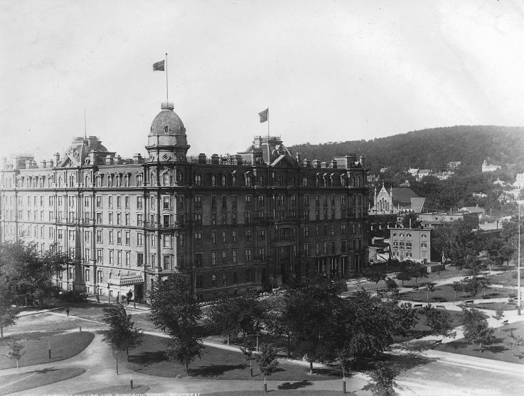 Dominion Square and Windsor Hotel, Montreal, Canada.